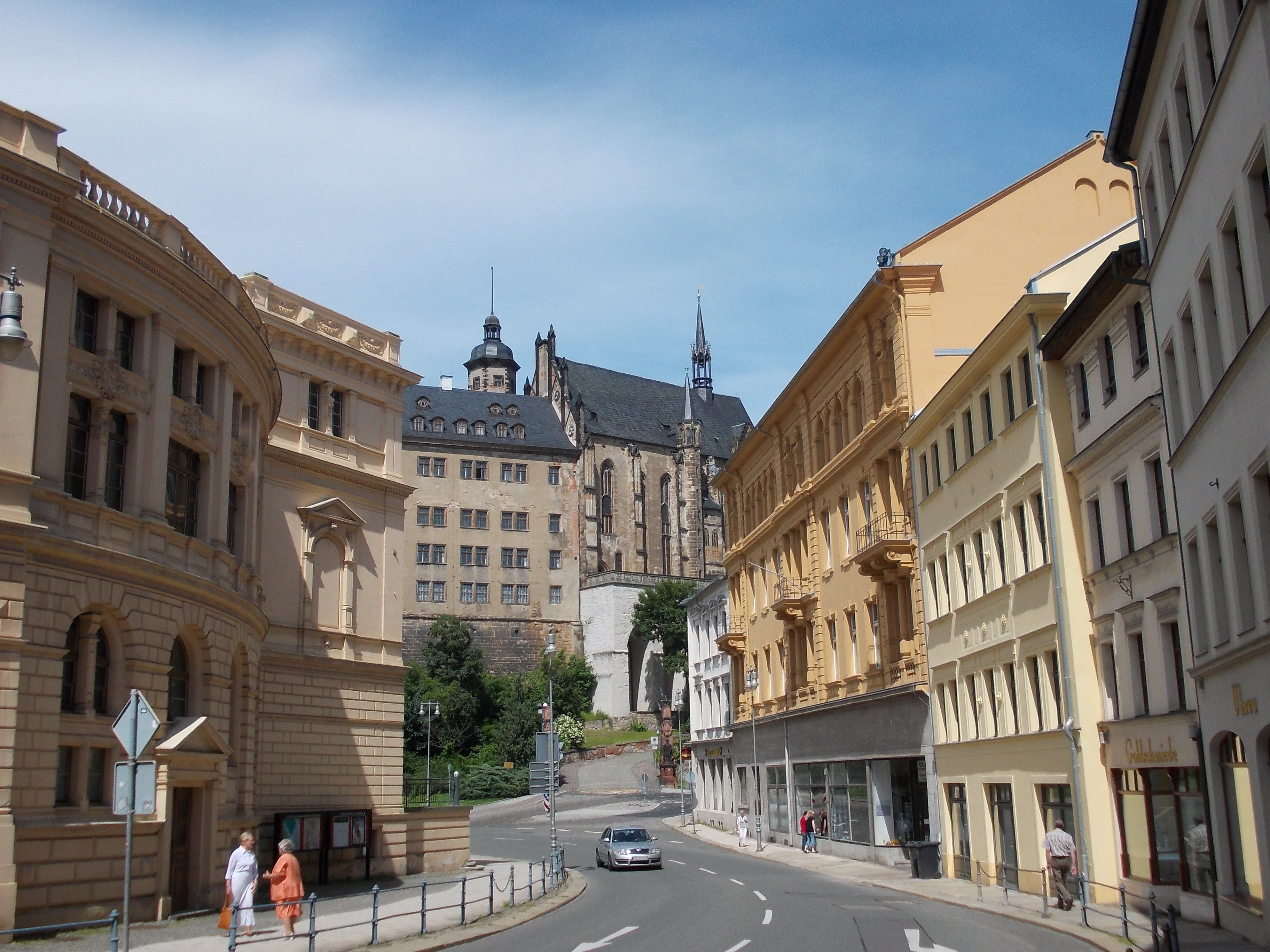 View of Altenburg Castle (Thuringia) from Theaterplatz